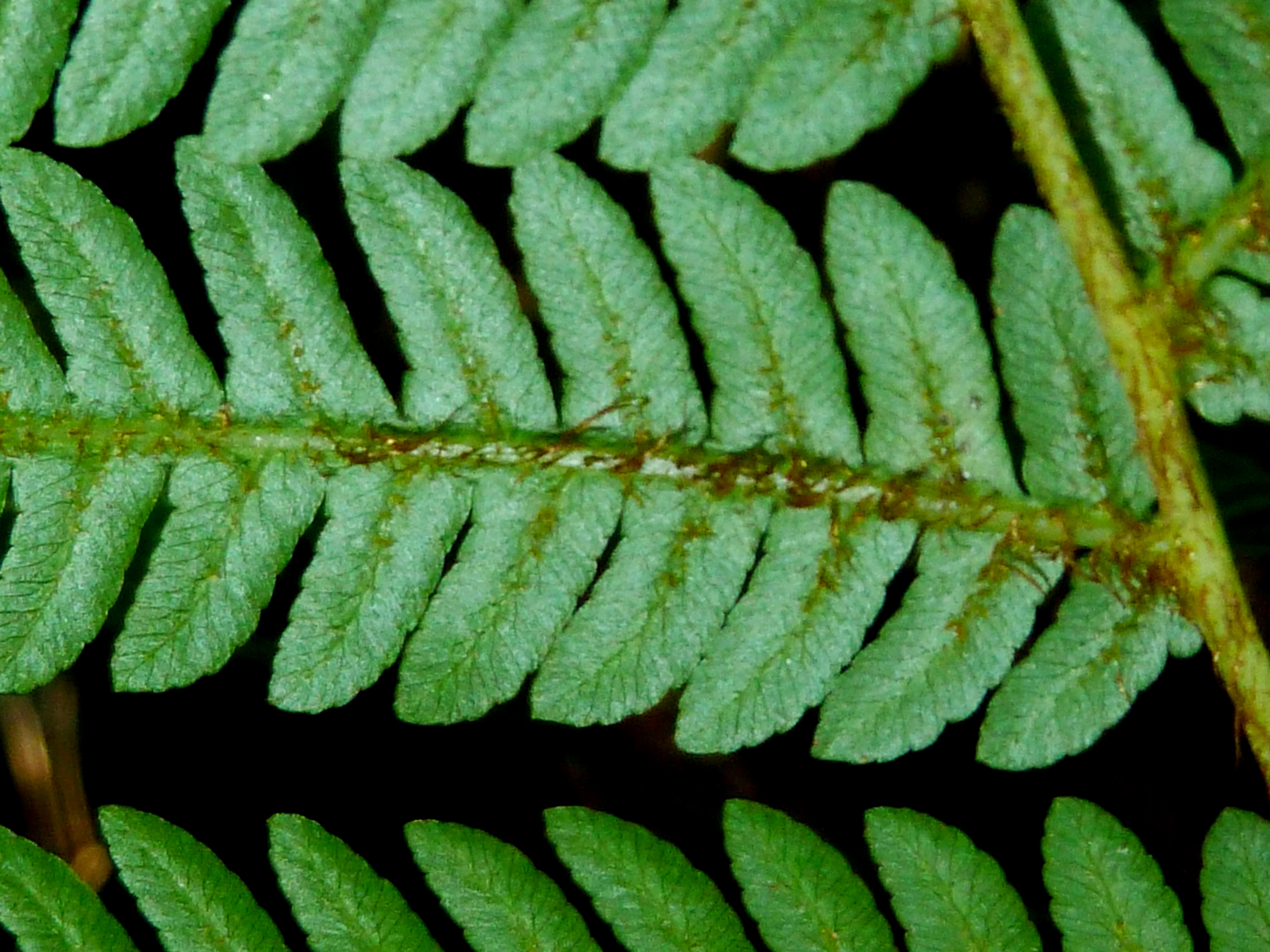 Pinna of a Common tree fern in Iphithi Nature Reserve, KwaZulu-Natal. Brown hair-like scales are scattered along the rachis and costules (main veins), and the distal pinna lobes are adnate (or interconnected).